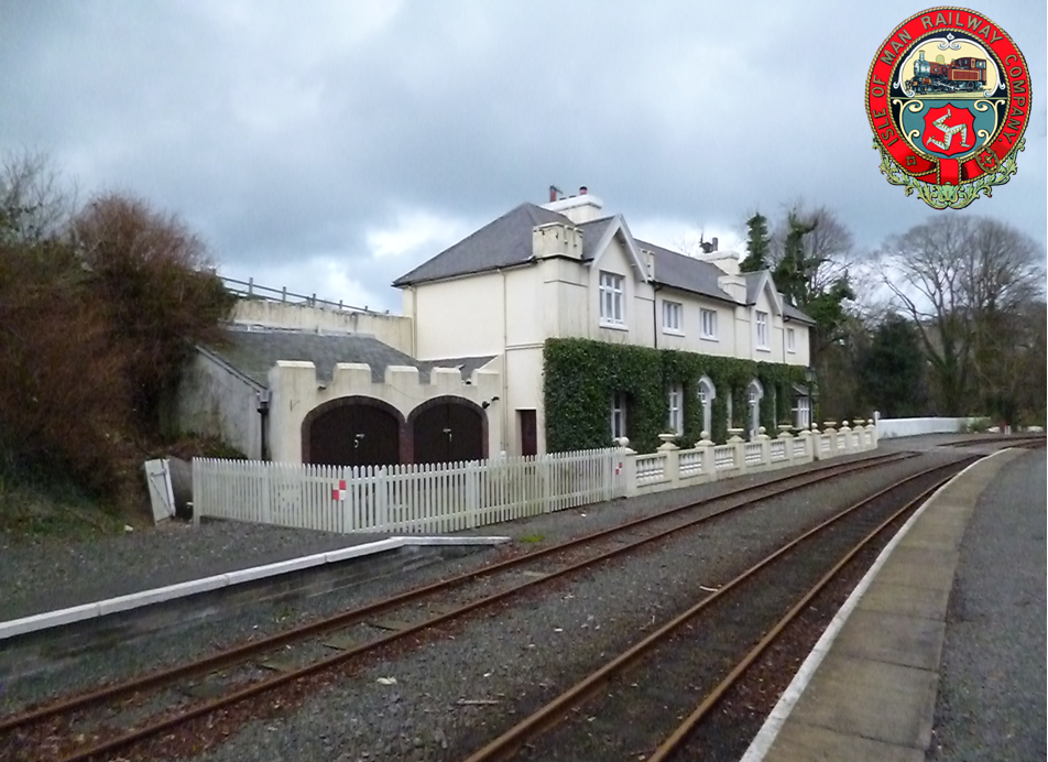 The 1898 structure at Port Soderick Station on the Isle of Man Railway